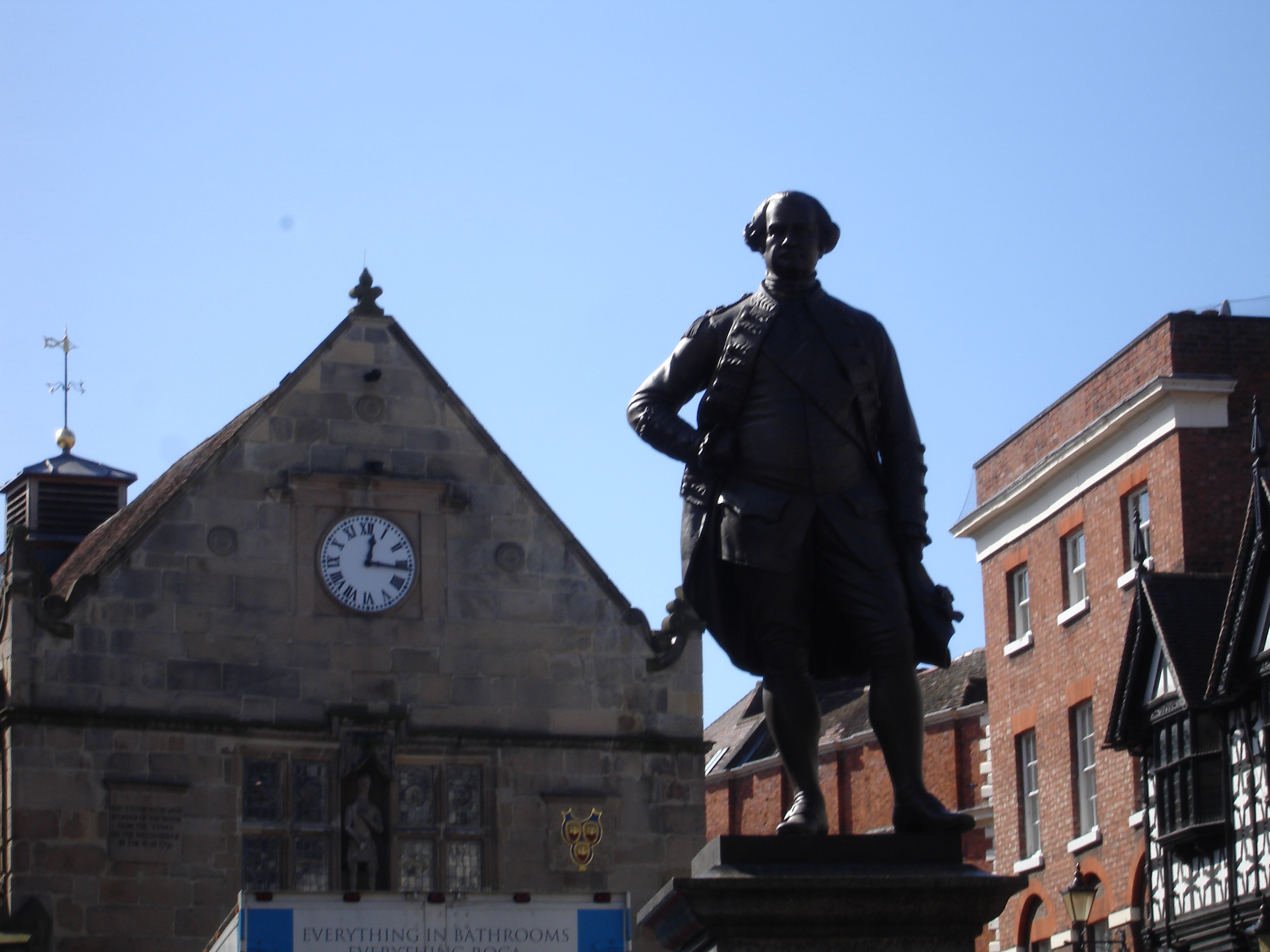 Statue of Robert Clive, 1st Baron Clive in Shrewsbury, England S Knights, my photo, March 2007